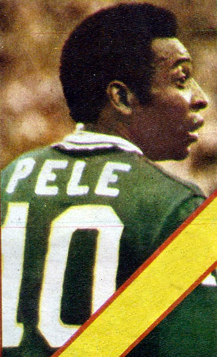 Pelé displayed on the cover of Libro Elegido #24